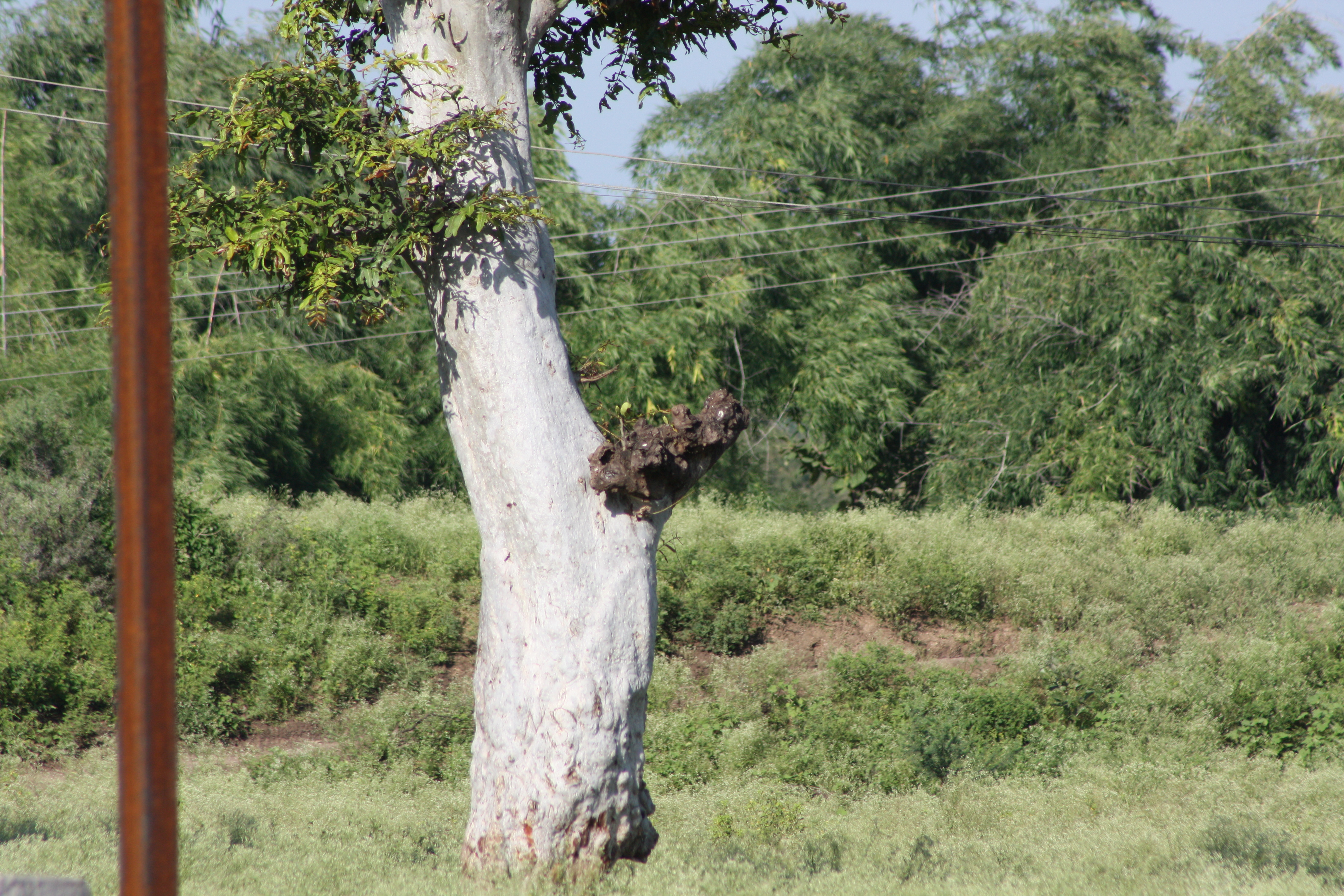 Terminalia arjuna